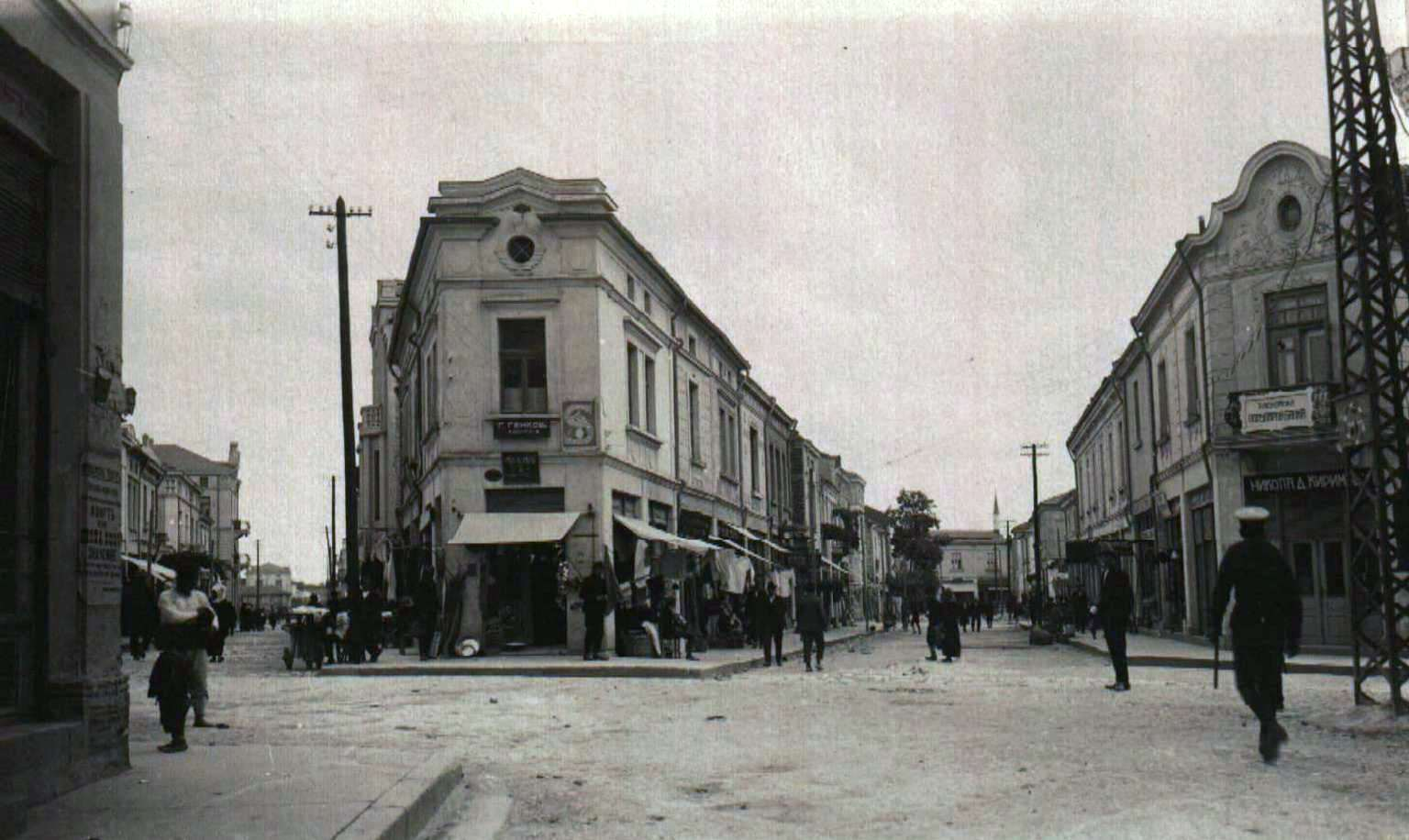 Haskovo, Bulgaria